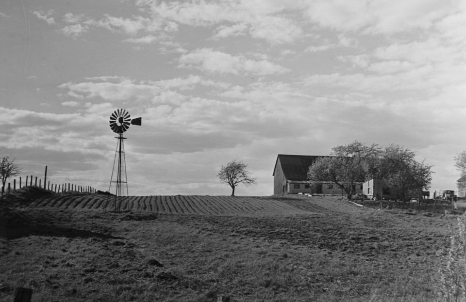 We see the buildings and grounds of a farm in Laval-des-Rapides. We notice a wind turbine near a cultivated field.